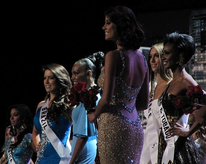 Miss Universe 2009 prepares to give up her crown